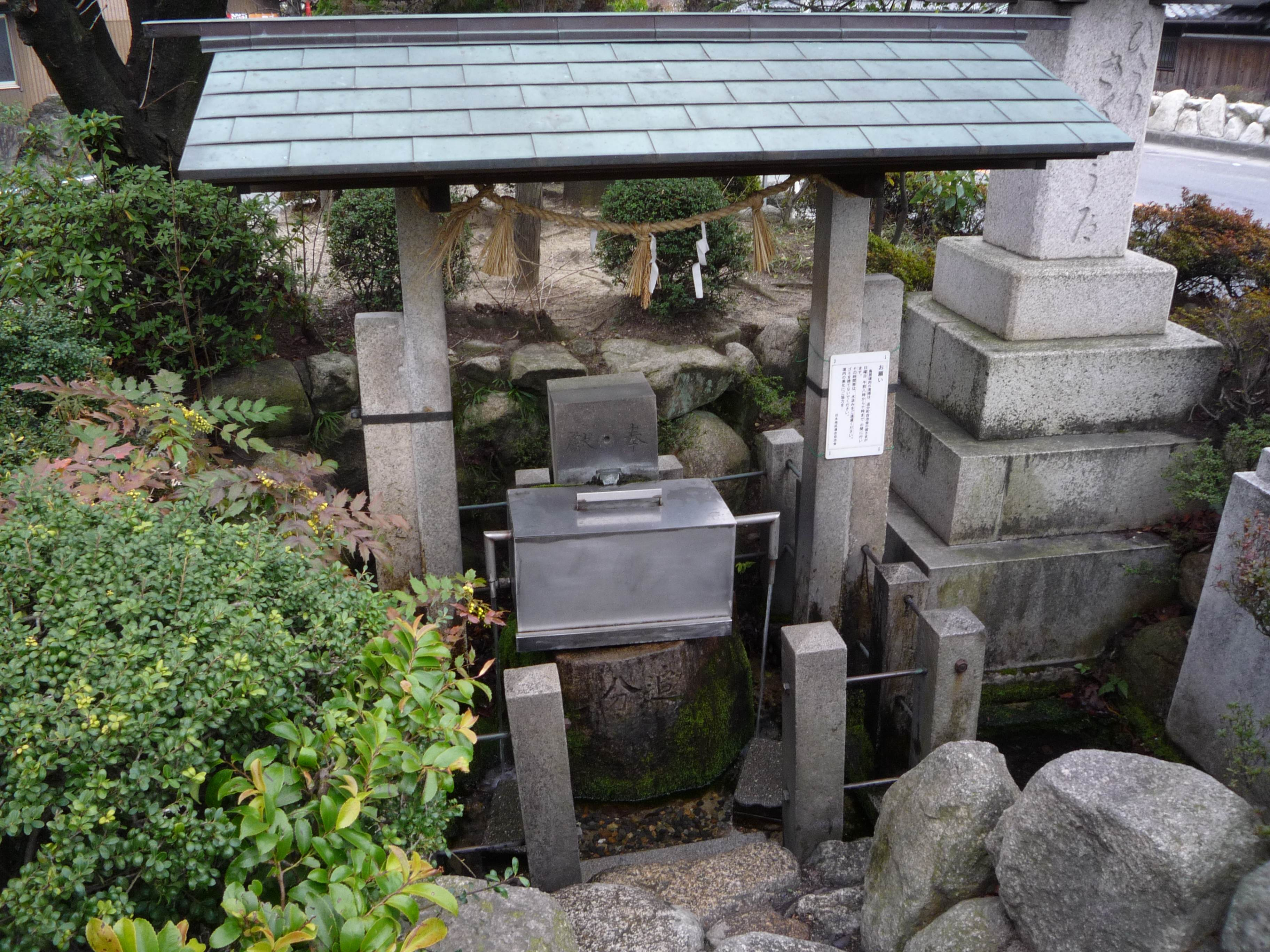 Oiwake Station (Mie)